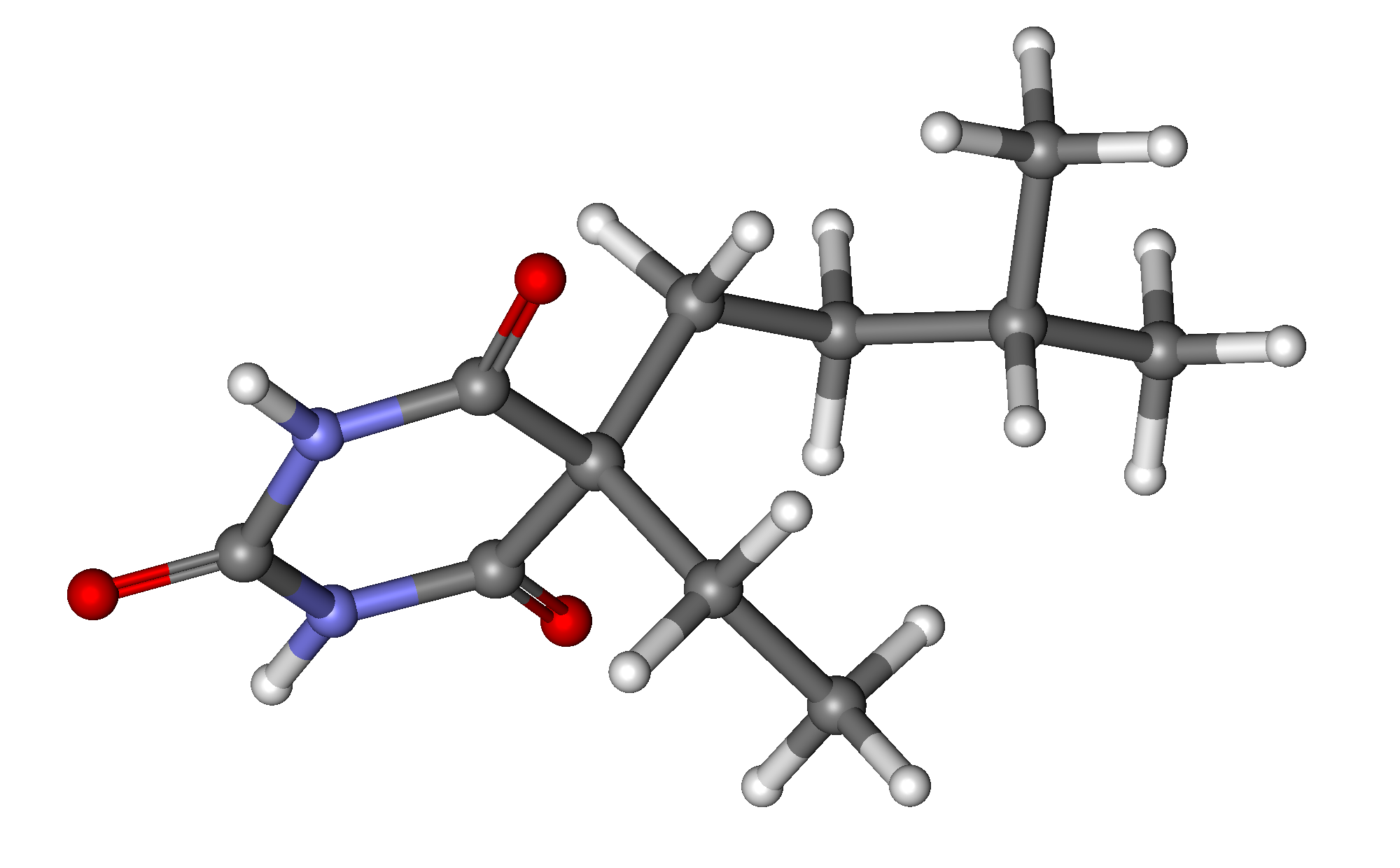 Ball-and-stick model of amobarbital molecule. The structure is taken from ChemSpider. ID 2079